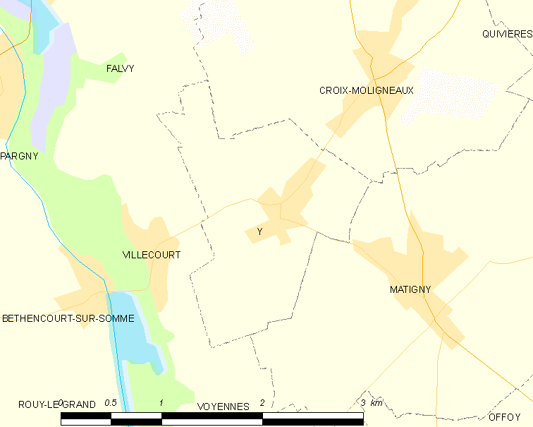 Map of French municipality Y